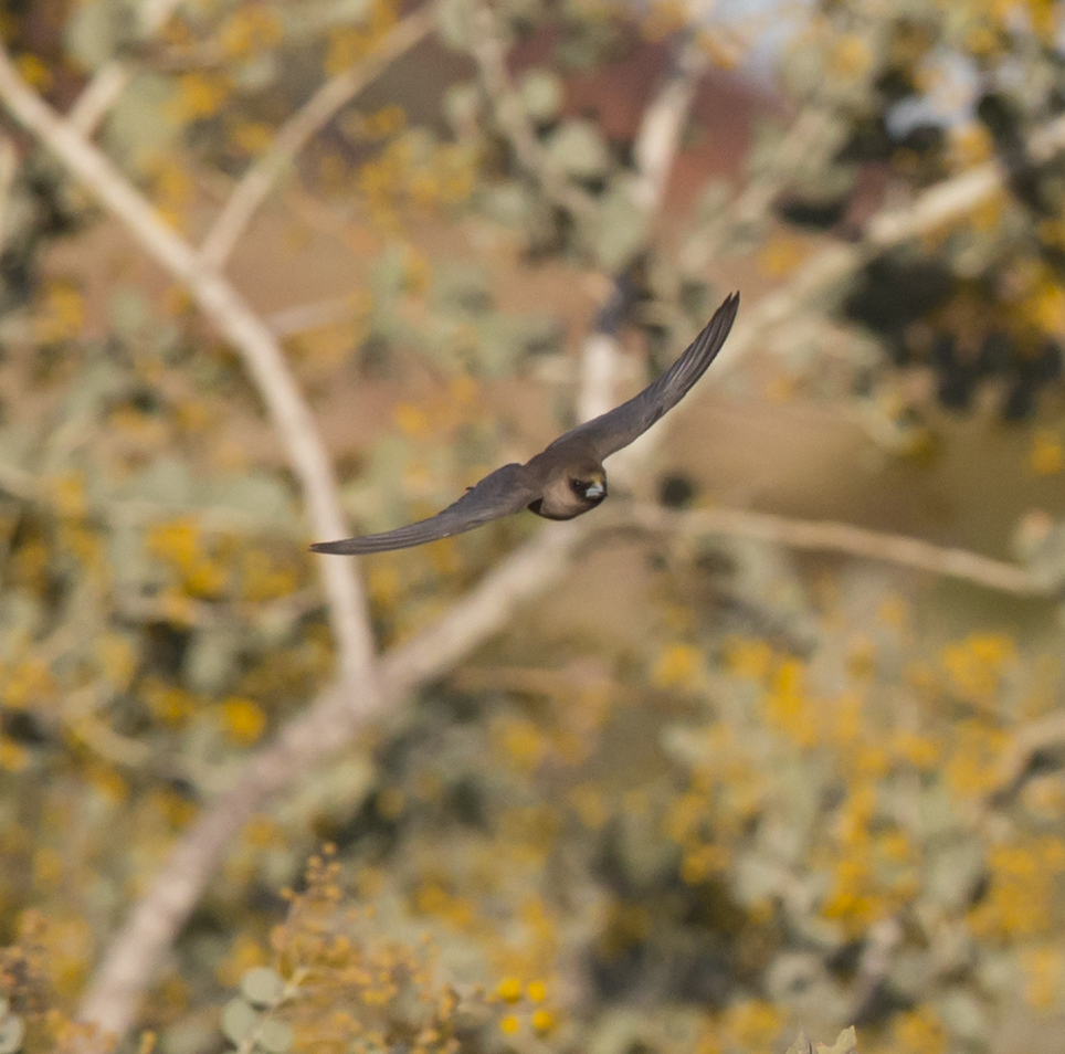 Little Woodswallow Artamus minor, Karratha, Pilbara region, Western Australia.